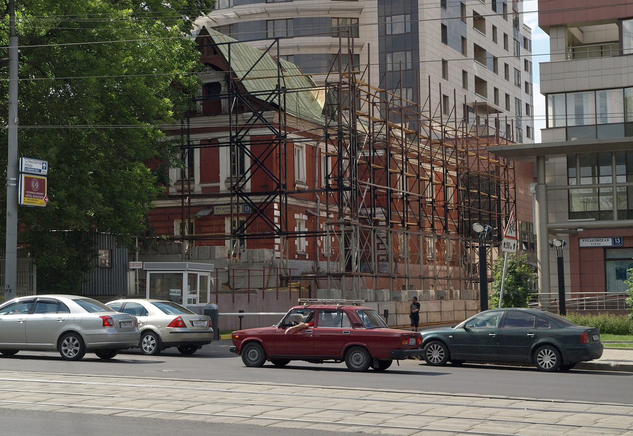 This listed historical building in Moscow, built in 1890s by August Weber, was demolished in September 2008. The owner-developer-destroyer was fined $1,500 and walked away. Ten years later, the same developer erected a "replica" of the lost building. The new facade, unusually for Moscow, looks quite close to the original, at least from a distance.